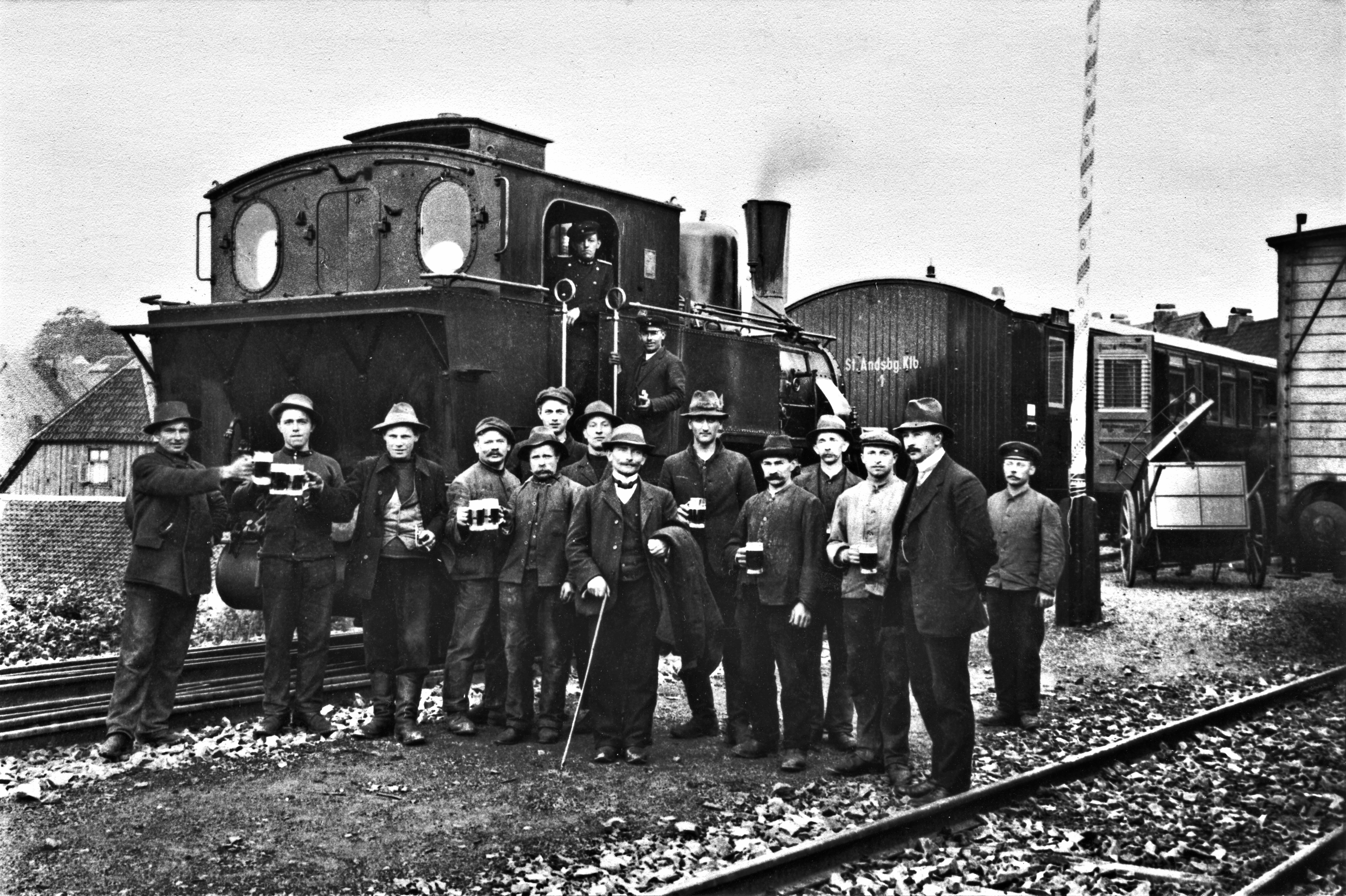 Sankt Andreasberger Kleinbahn „Mariechen“ bei der Abnahme